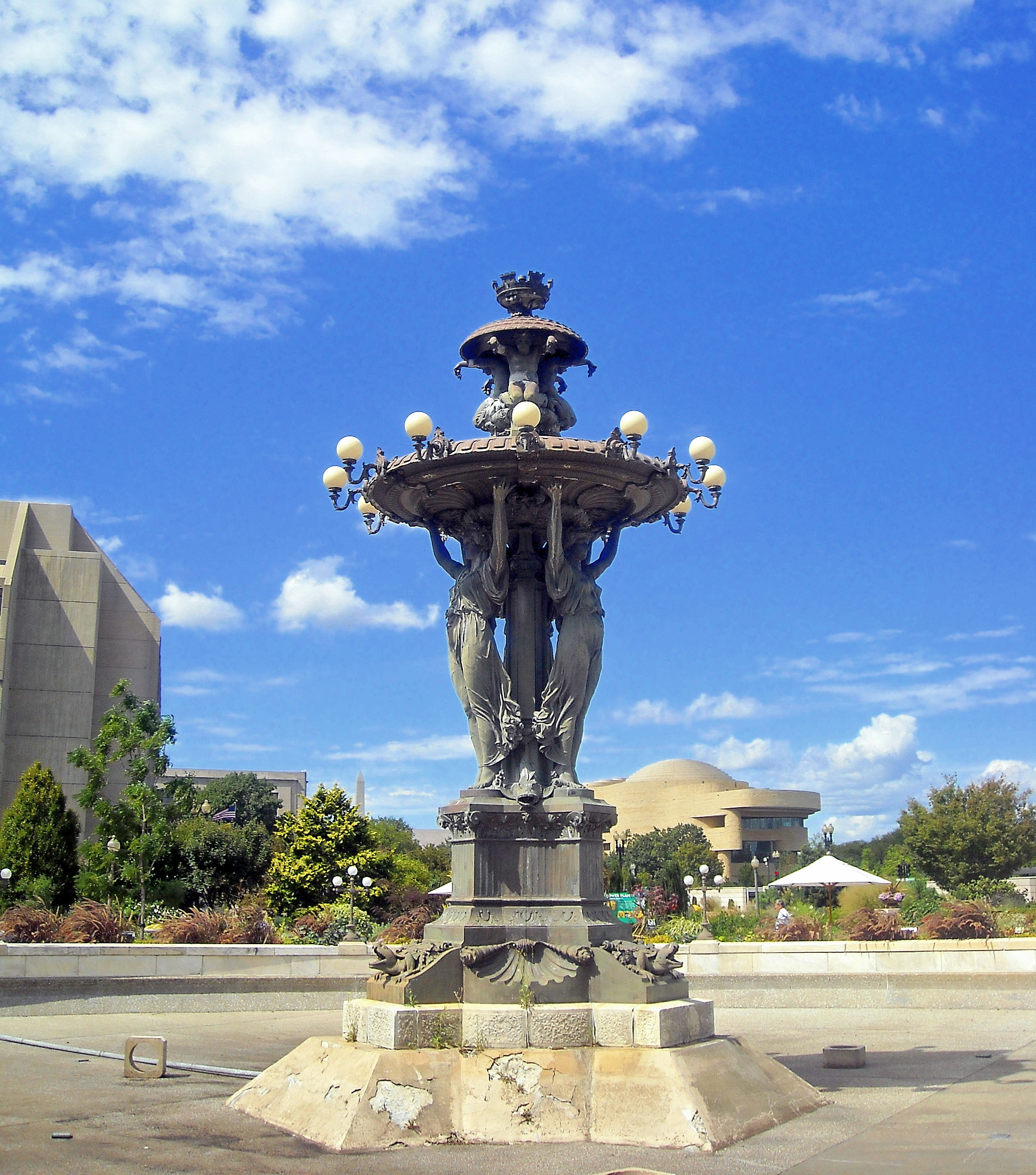 The Bartholdi Fountain, sculpted by Frédéric Auguste Bartholdi, located at the United States Botanic Garden in Washington